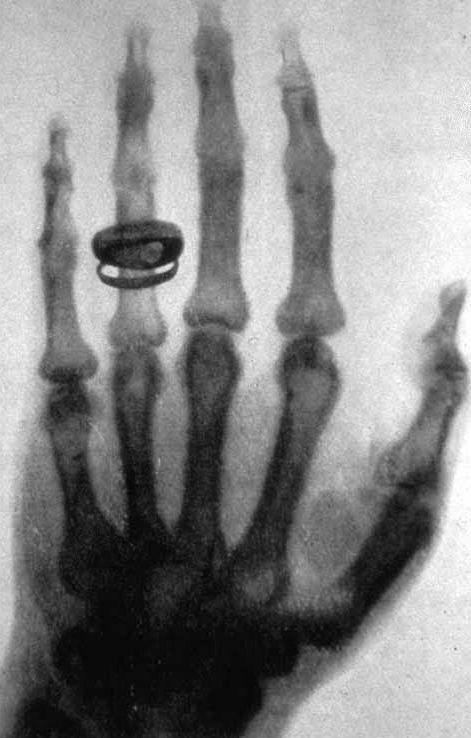 An early X-ray picture (radiograph) taken at a public lecture by Wilhelm Röntgen (1845–1923) of Albert von Kölliker's left hand. See Axel Haase; Gottfried Landwehr; Eberhard Umbach (eds.) (1997) Röntgen Centennial: X-rays in Natural and Life Sciences, Singapore: World Scientific, pp. 7–8 ISBN: 981-02-3085-0.